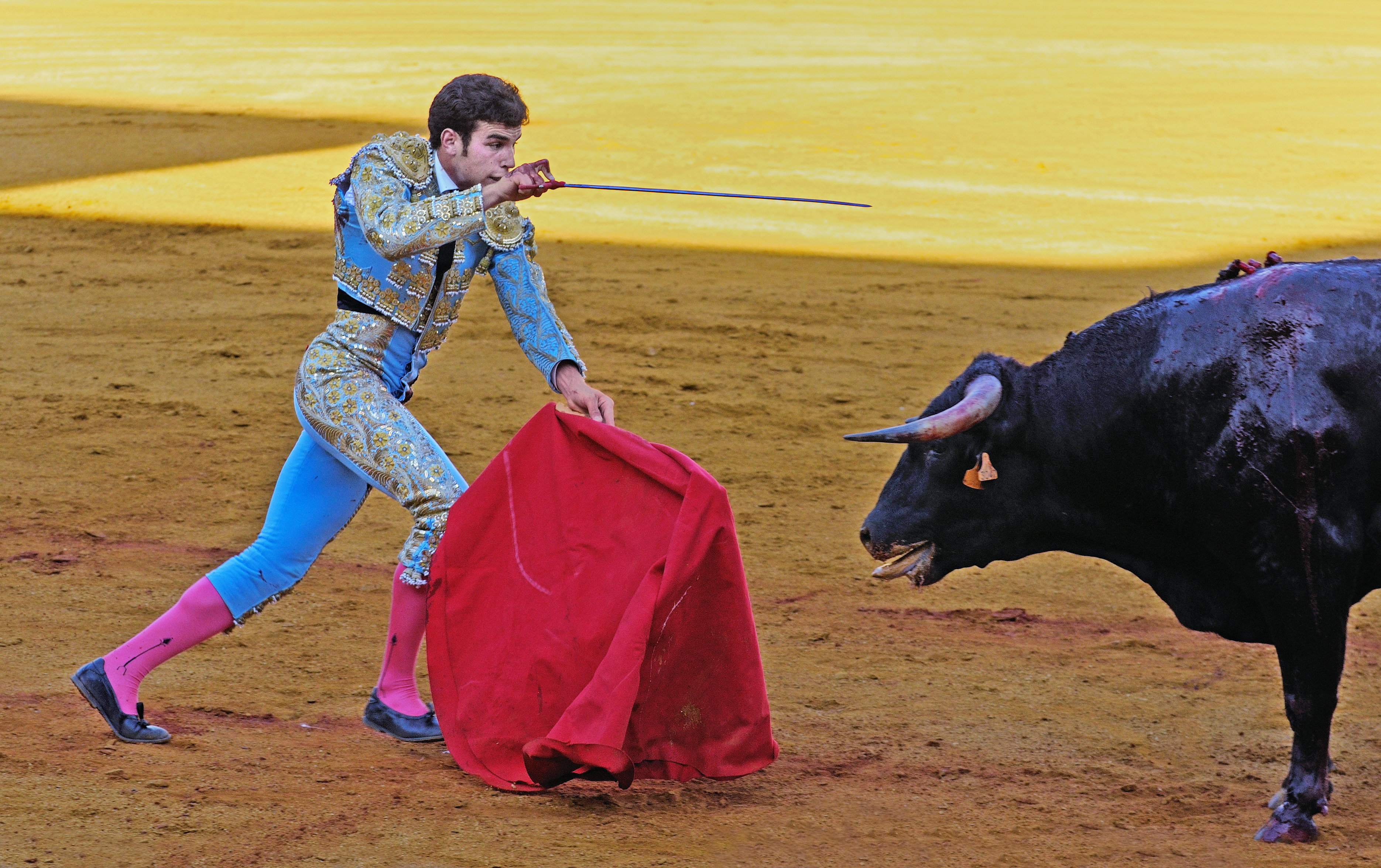 Volapié. Plaza De Toros De La Maestranza. Seville, Spain